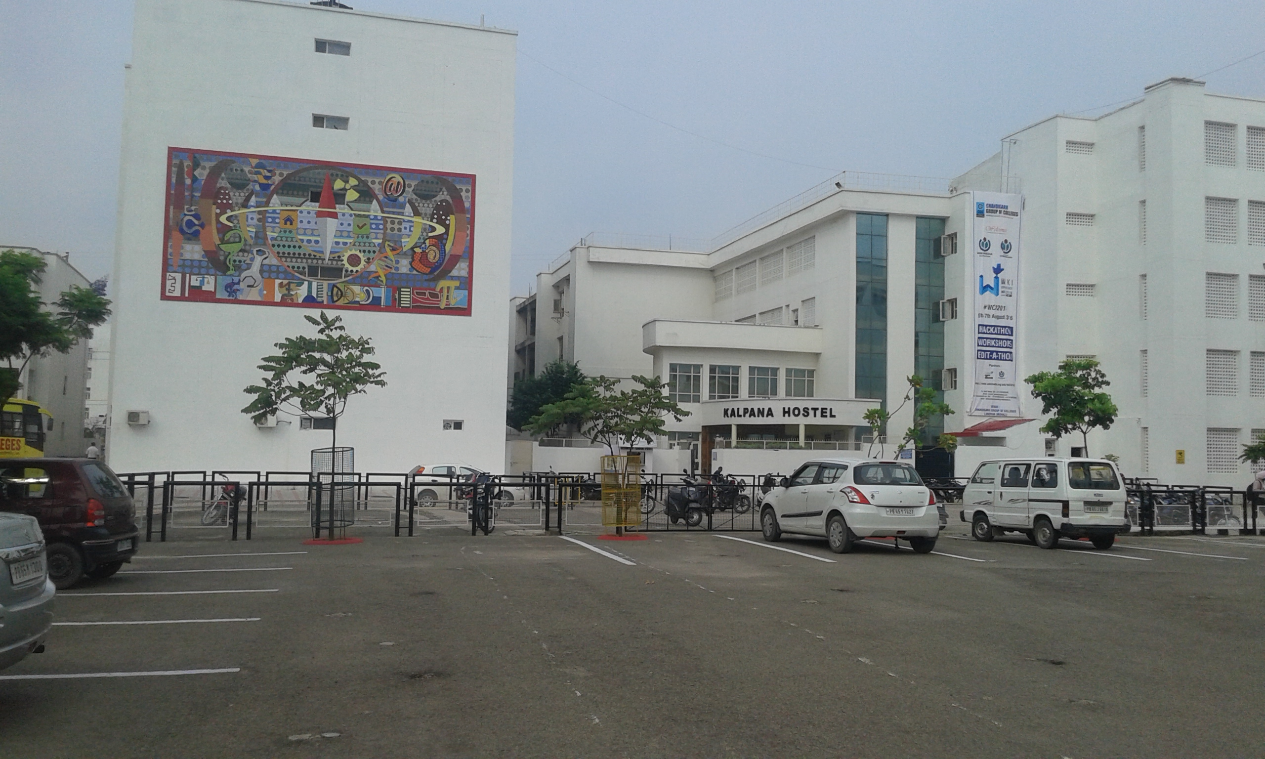 Chandigarh Group of Colleges Hostel